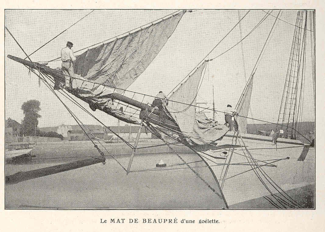 Subject: Masts and rigging, Schooners Tag: Vessels